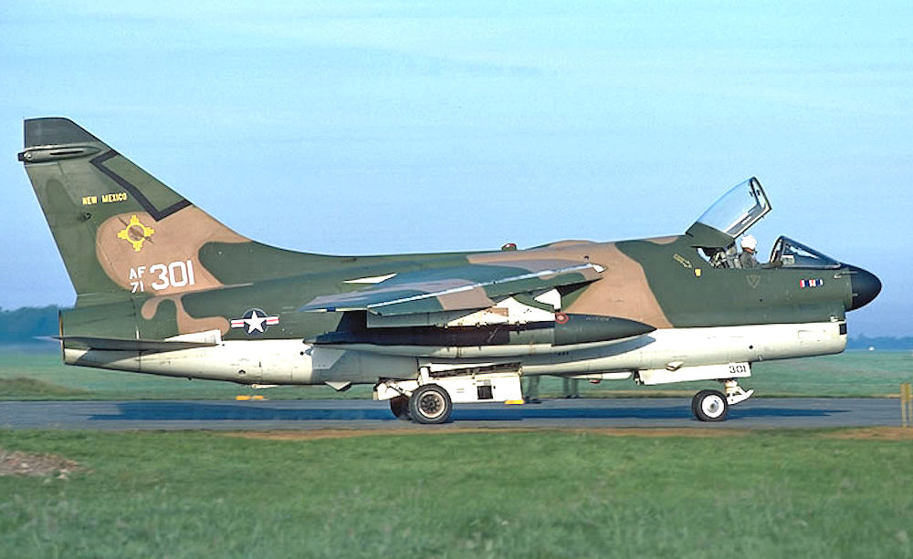 188th Tactical Fighter Squadron A-7D-10-CV Corsair II 71-0301. 1972: Delivered to 355th Tactical Fighter Wing/354th TFS, Davis-Monthan AFB, NV (c/n D-212) Transferred to 188th Tactical Fighter Squadron, NM Air National Guard, 1977 Transferred to 186th Tactical Fighter Squadron, OH Air National Guard, 1988 Transferred to AMARC as AE0177 Jul 21, 1992. Disposition 04-APR-97 / To National, Kolb Rd, Tucson, AZ. Scrapped